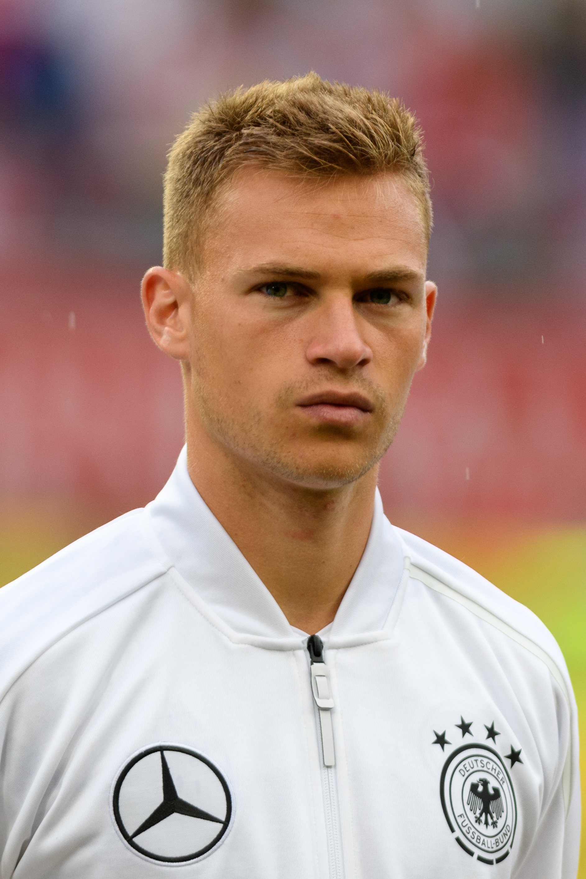 FIFA Friendly Match Austria vs. Germay 2018/06/02 in Klagenfurt/Woerthersee. Picture shows Joshua Kimmich (GER).